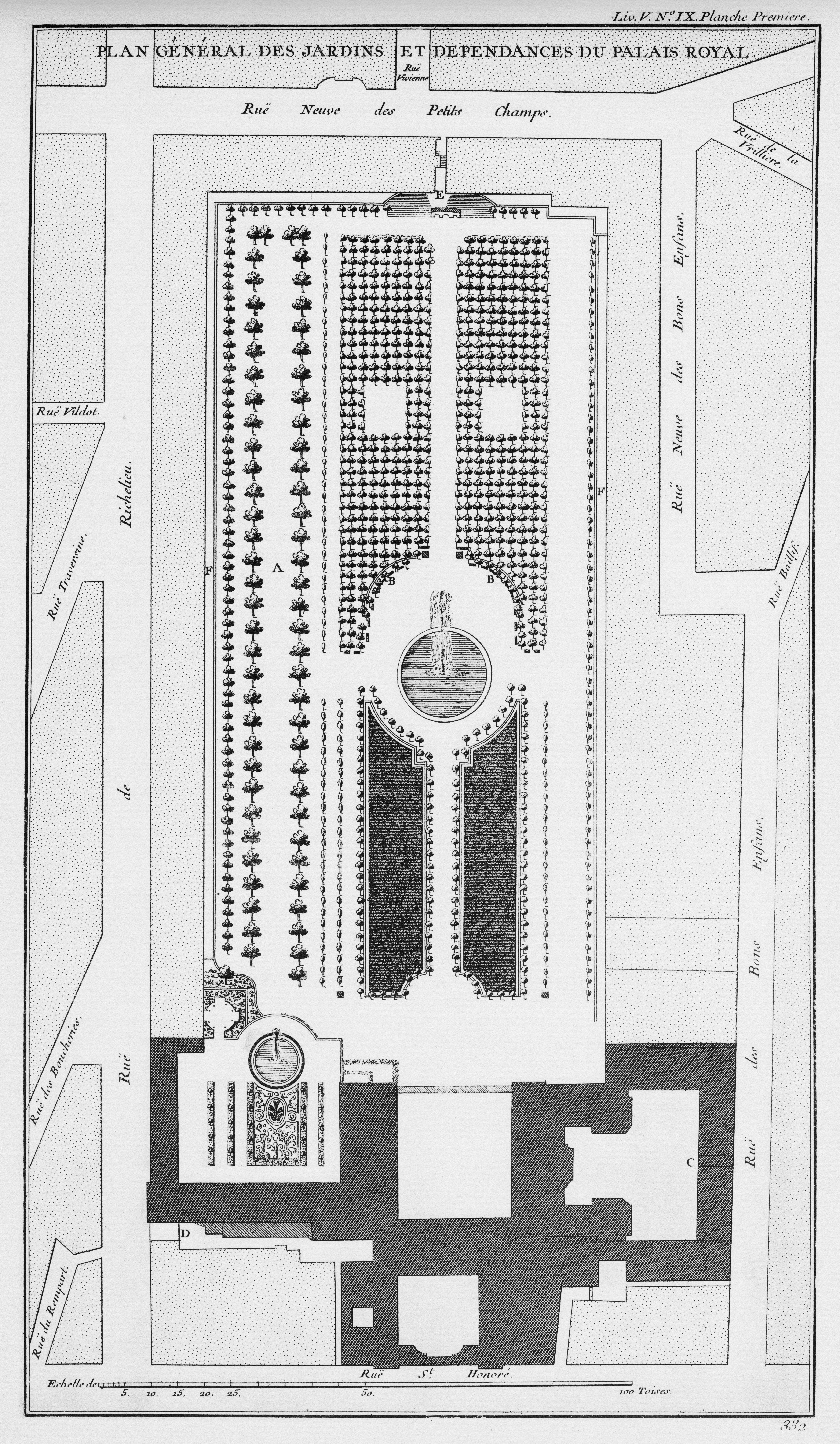 Plate 1. General plan of the gardens of the Palais-Royal in Paris. From Architecture françoise, Tome 3, Livre 5, Chapitre 9 (following p. 44 of the 1904 reimpression). For the original French text discussing this plate, see p. 38 of tome 3 (at Gallica).